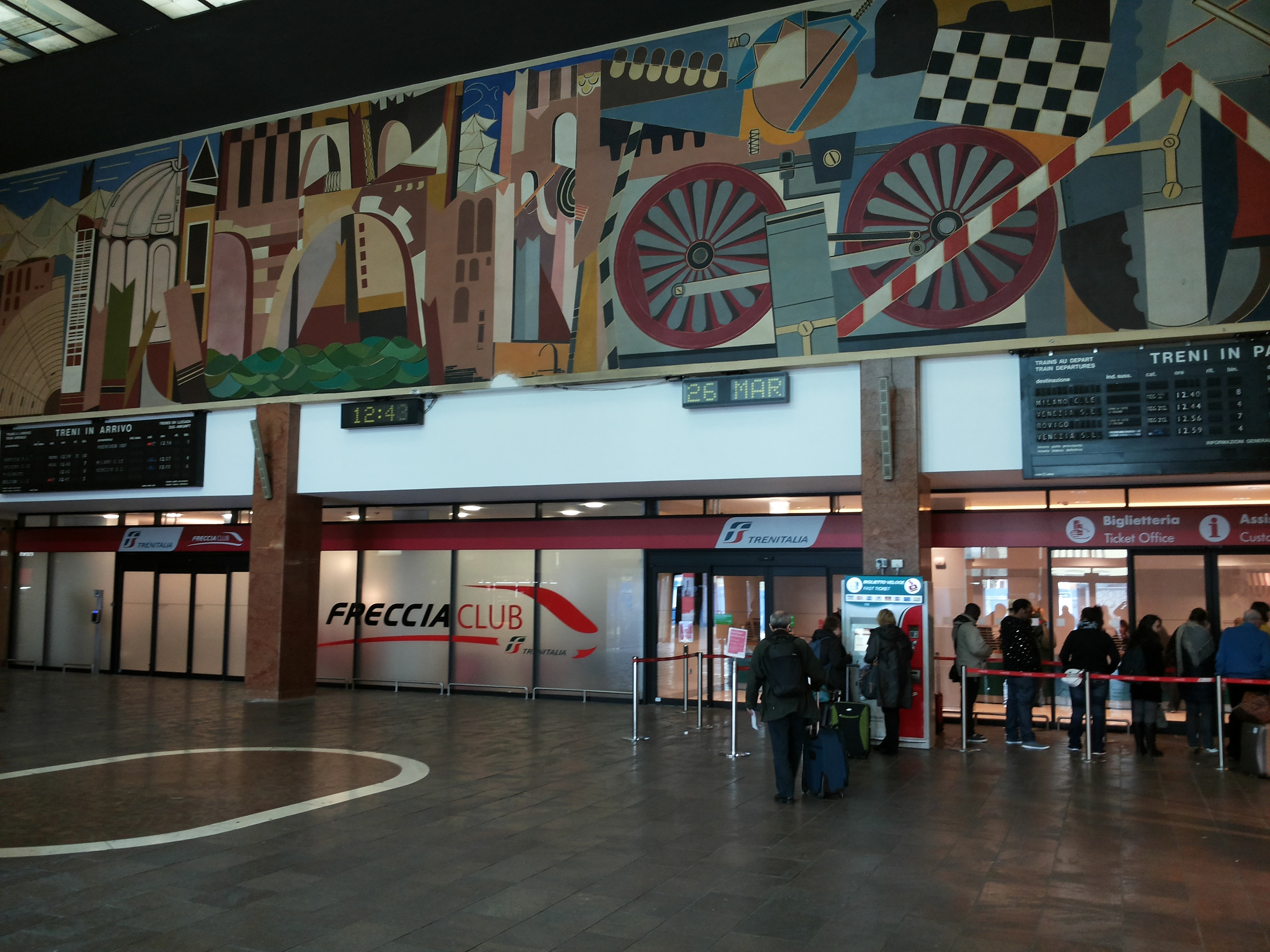 Inside the Verona Porta Nuova train station